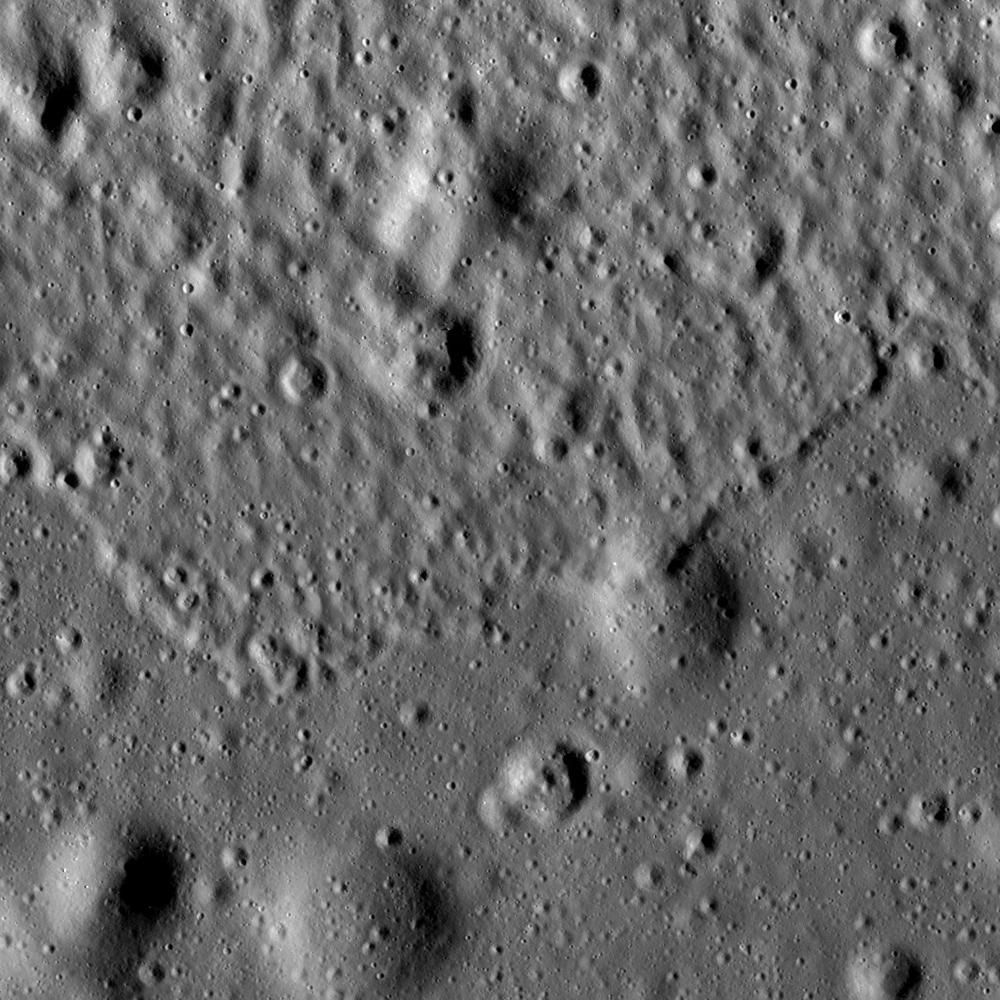 Western portion of Crüger crater floor. LROC NAC mosaic (M1108725909R and M1108725909L). Image center is 16.759°S, 292.627°E, image width is 1670 m. Sunlight is from right side. North is up [NASA/GSFC/Arizona State University].